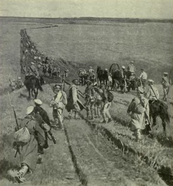 Retreat of Kolchak's army in Siberia.